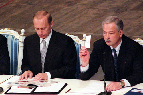 THE KREMLIN, MOSCOW. At the congress of the United Russia political movement.